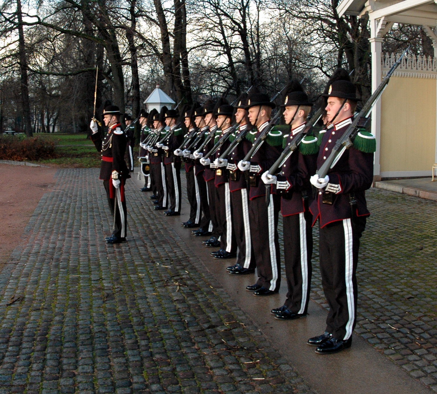 Oslo royal palace changing of the guard photo D Ramey Logan